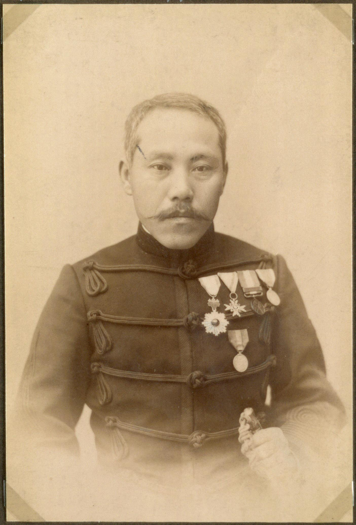 On the back of the photo is written: ”Souvenir d’Amitié à Monsieur le Capitain Munter. N. Arisaka, Colonel d’Artillerie”. Photographer: S. Suzuki, Tokyo, Japan. Portraits of Japanese which belonged to Commander and Valet de chambre B. Münter. No. es_b_00715a